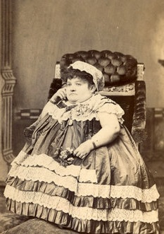 Carrie Akers, sideshow attraction